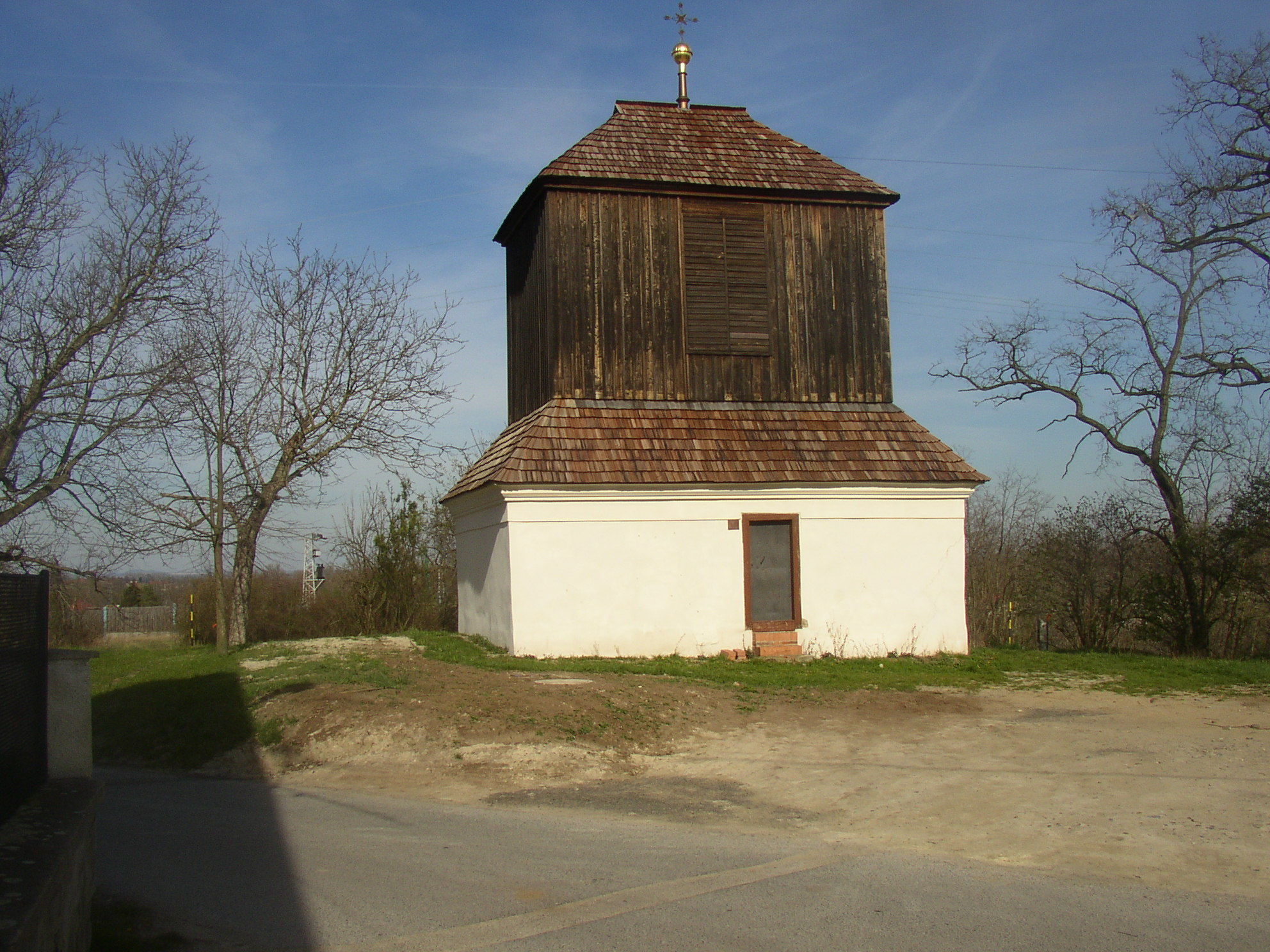 Belfry in Vepřek, part of Nová Ves municipality, Mělník District, Czech Republic.